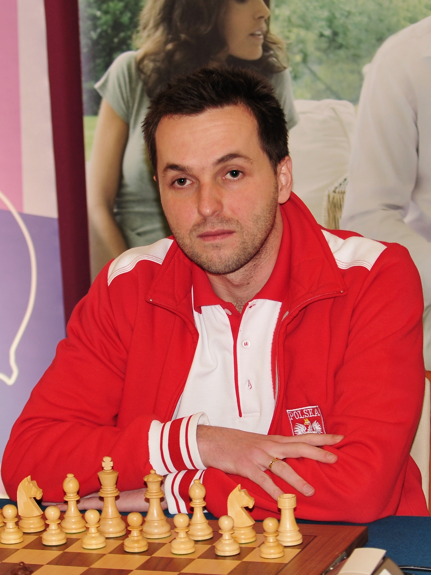 GM Kamil Mitoń, European Chess Team Championship Warsaw 2013